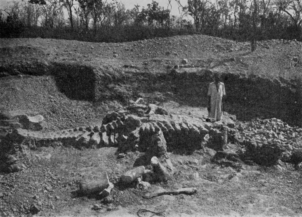 Skeleton of Dicraeosaurus. Tendaguru Formation. Germanic East Africa. 1912 year.